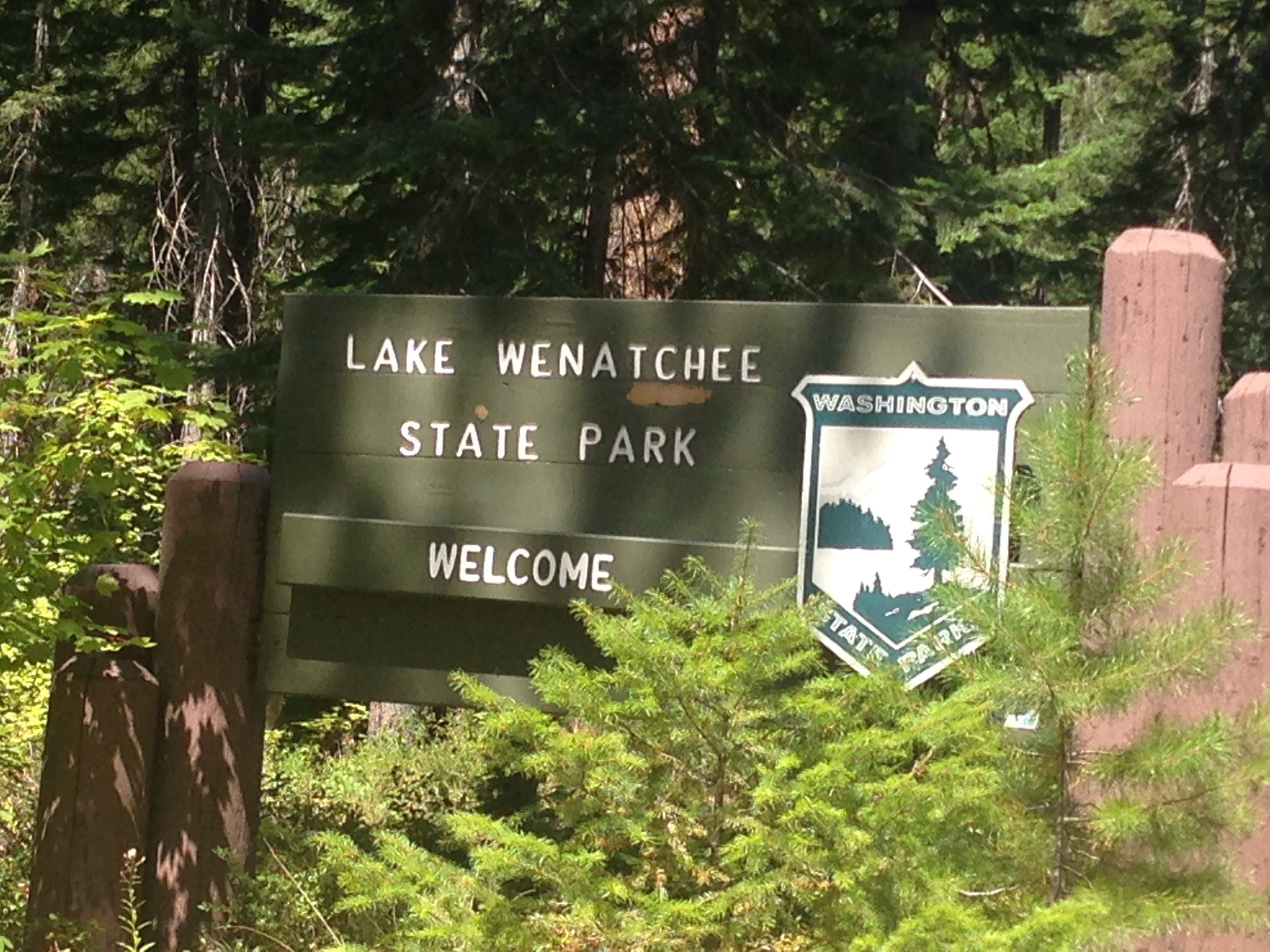 Lake Wenatchee State Park entrance sign